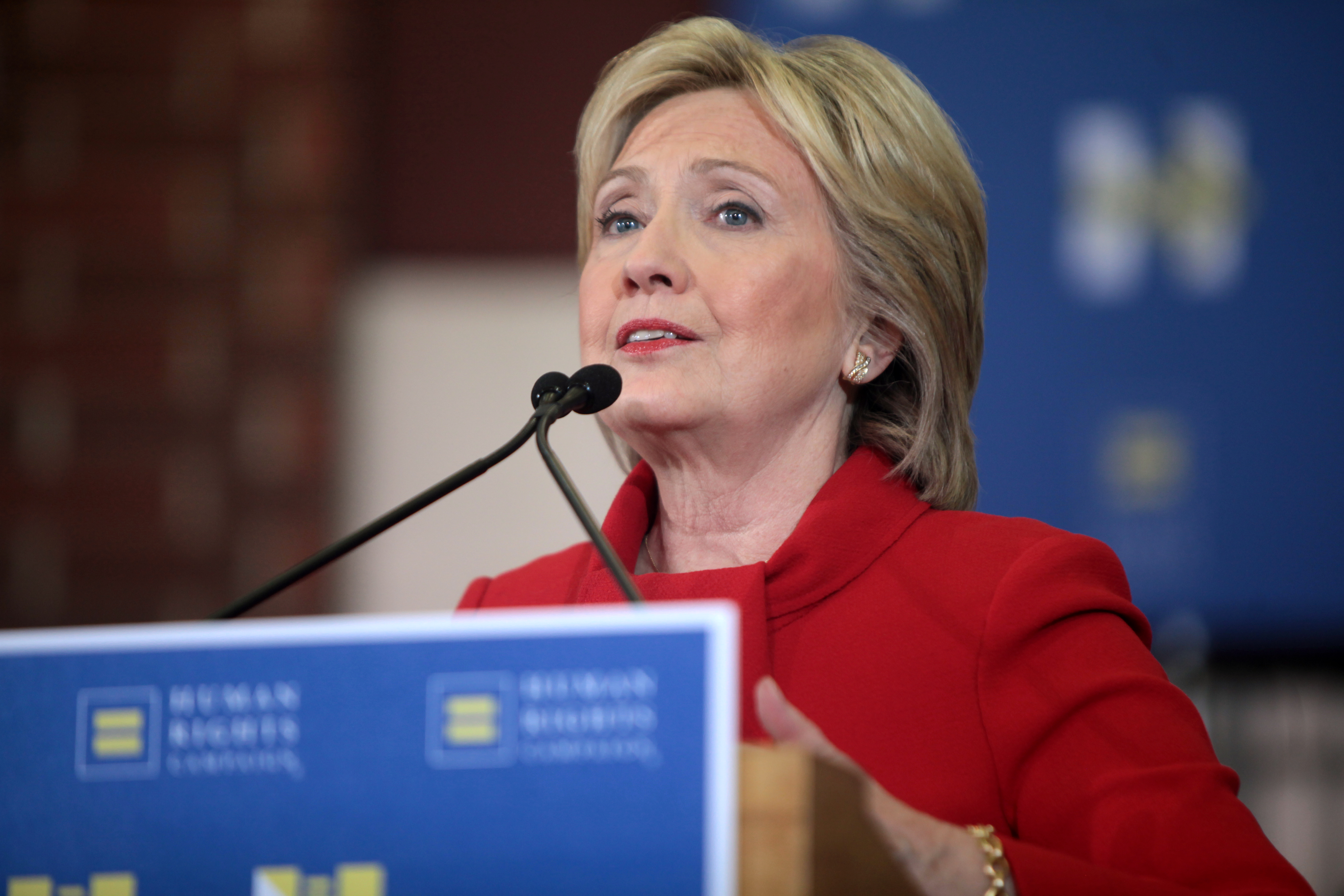 Former Secretary of State Hillary Clinton speaking with supporters at a "Get Out the Caucus" rally at Valley Southwoods Freshman High School in West Des Moines, Iowa.